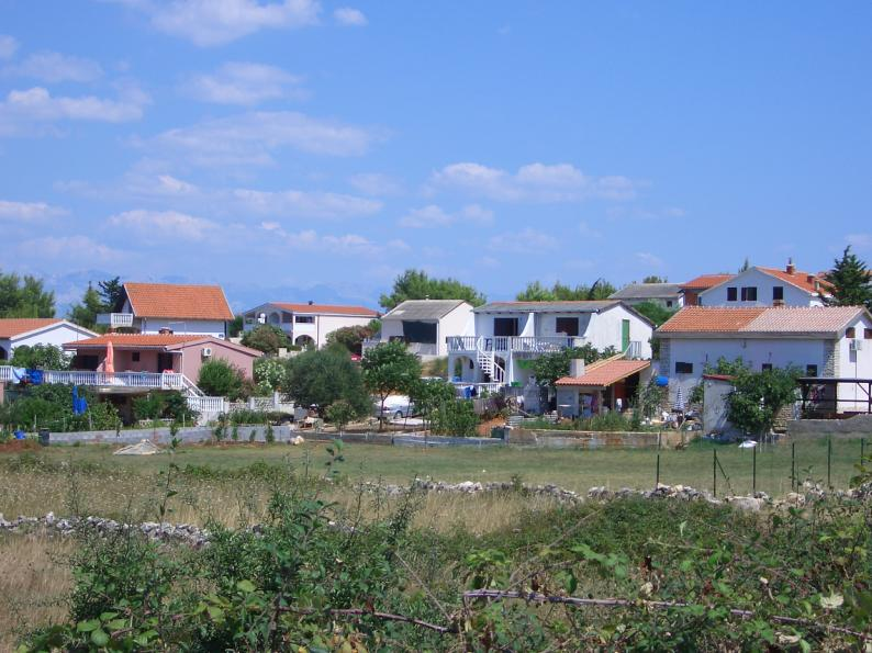 Vir, houses